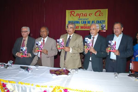 Giriraj Kishore